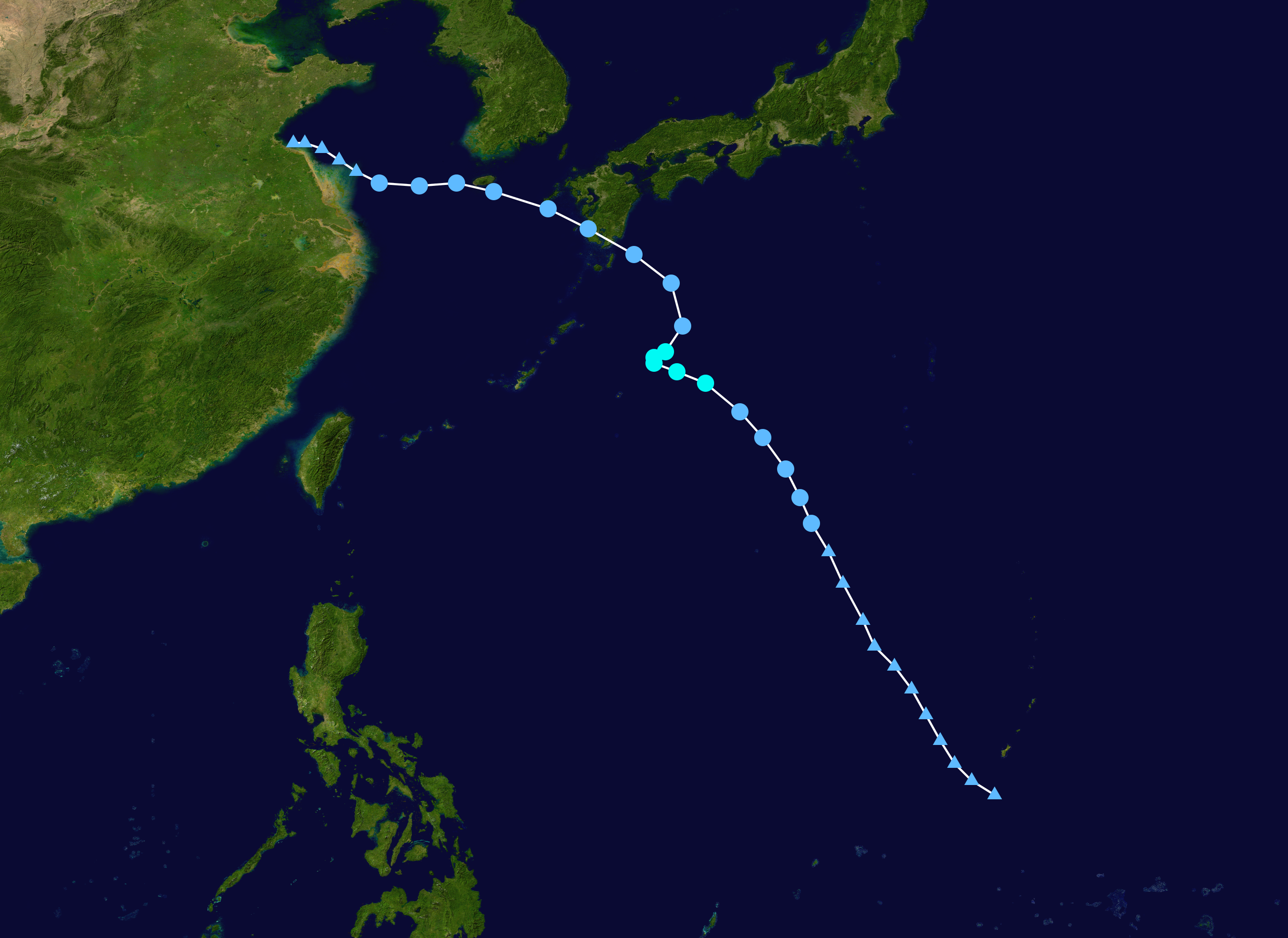 Track map of Tropical Storm Paul of the 1999 Pacific typhoon season. The points show the location of the storm at 6-hour intervals. The colour represents the storm's maximum sustained wind speeds as classified in the Saffir–Simpson hurricane wind scale (see below), and the shape of the data points represent the nature of the storm, according to the legend below. Saffir–Simpson hurricane wind scale Tropical depression≤38 mph≤62 km/h Category 3111–129 mph178–208 km/h Tropical storm39–73 mph63–118 km/h Category 4130–156 mph209–251 km/h Category 174–95 mph119–153 km/h Category 5≥157 mph≥252 km/h Category 296–110 mph154–177 km/h Unknown Storm typeTropical cycloneSubtropical cycloneExtratropical cyclone / Remnant low / Tropical disturbance